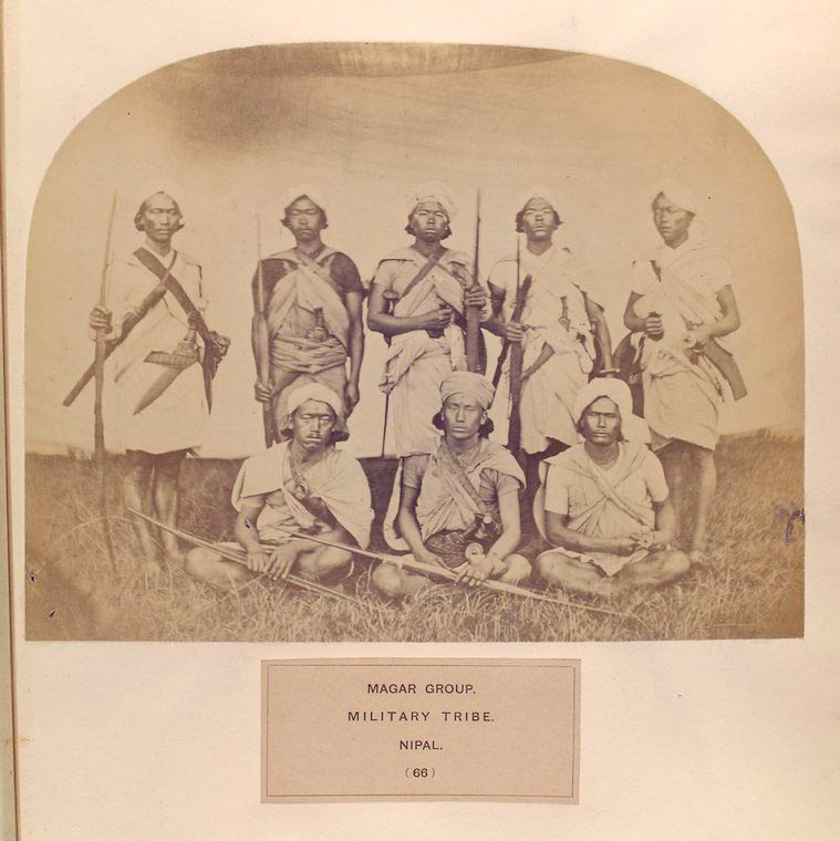 This image is from the book, The People of India, a series of photographic illustrations, with descriptive letterpress, of the races and tribes of Hindustan, originally prepared under the authority of the government of India, and reproduced. by J. Forbes Watson and John William Kaye between 1868 - 1875.